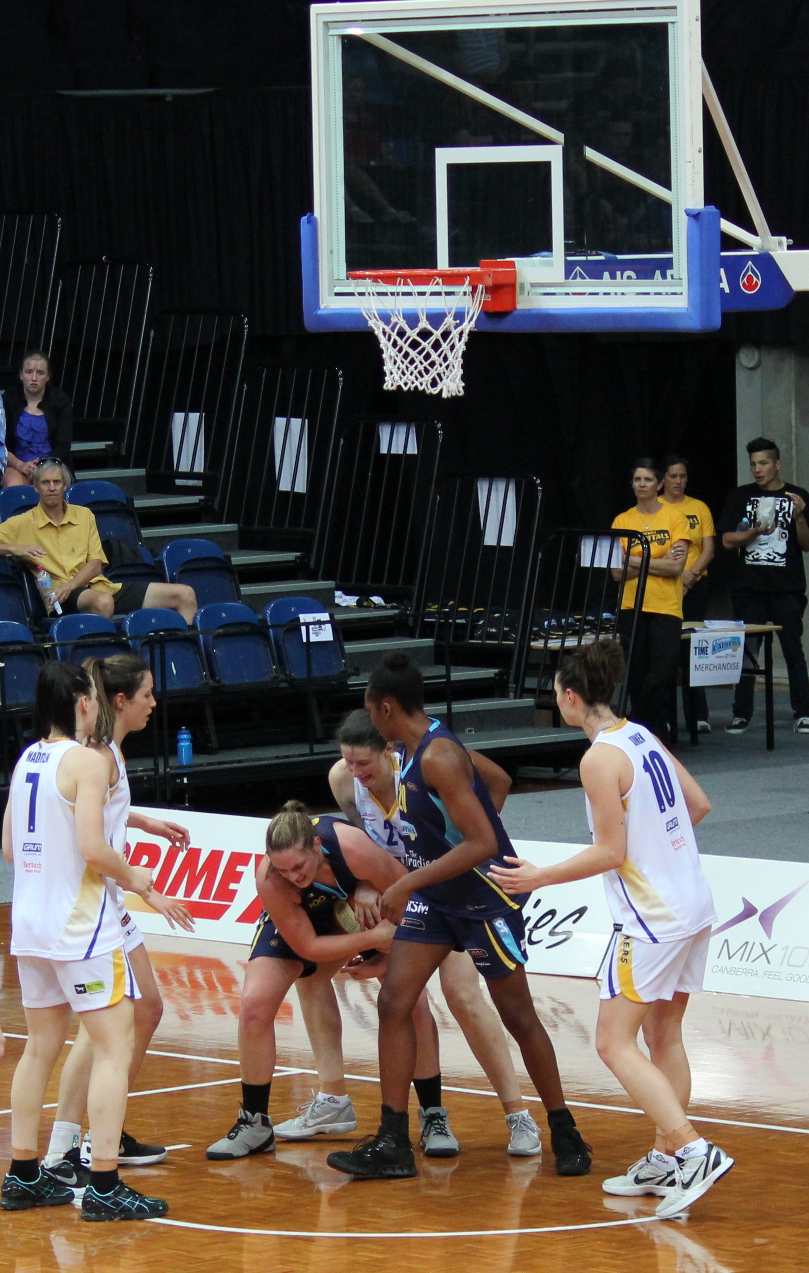 Valerie Ogoke in 20 October game for the Canberra Capitals.